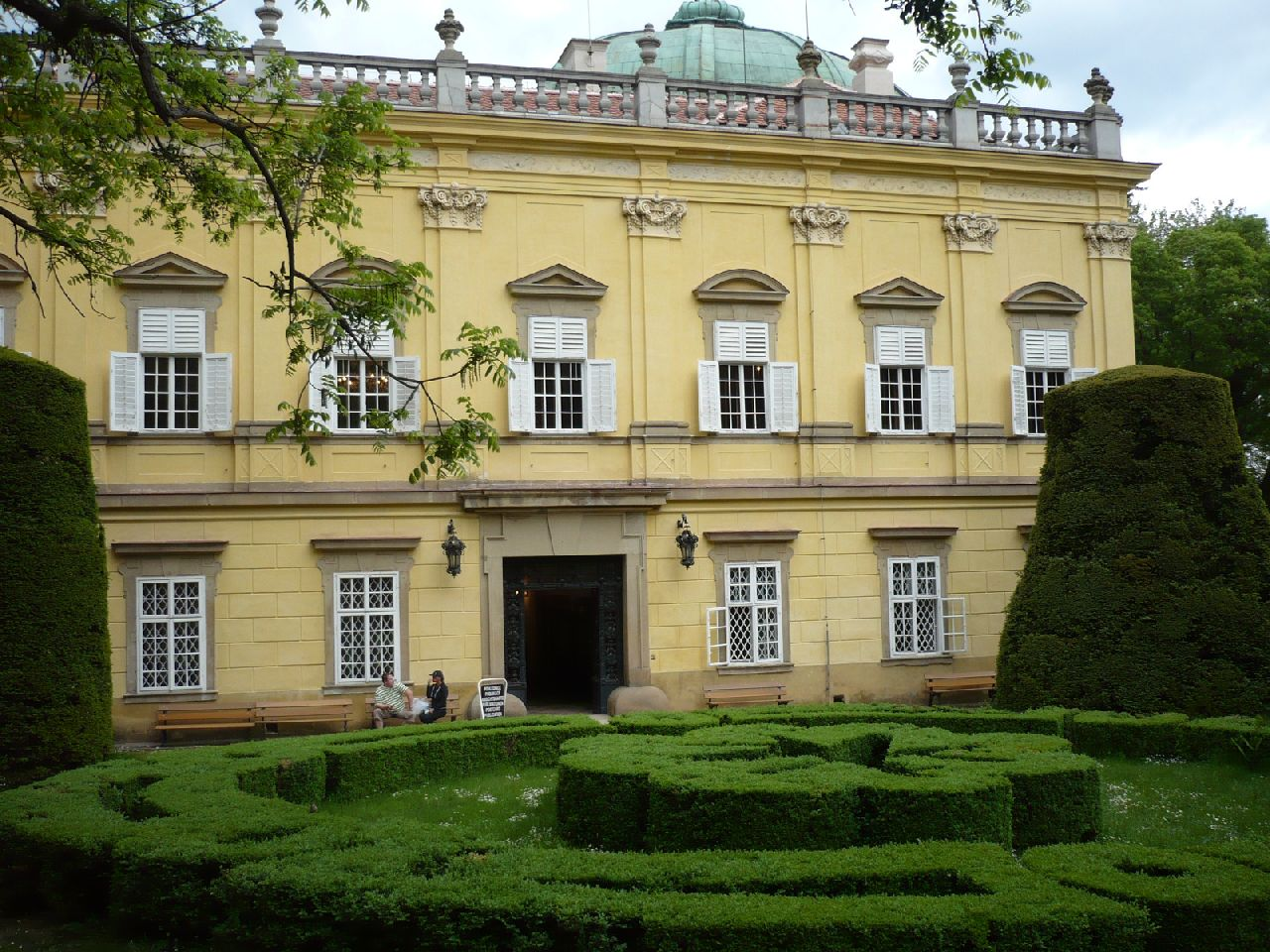 Castle Buchlovice - main building